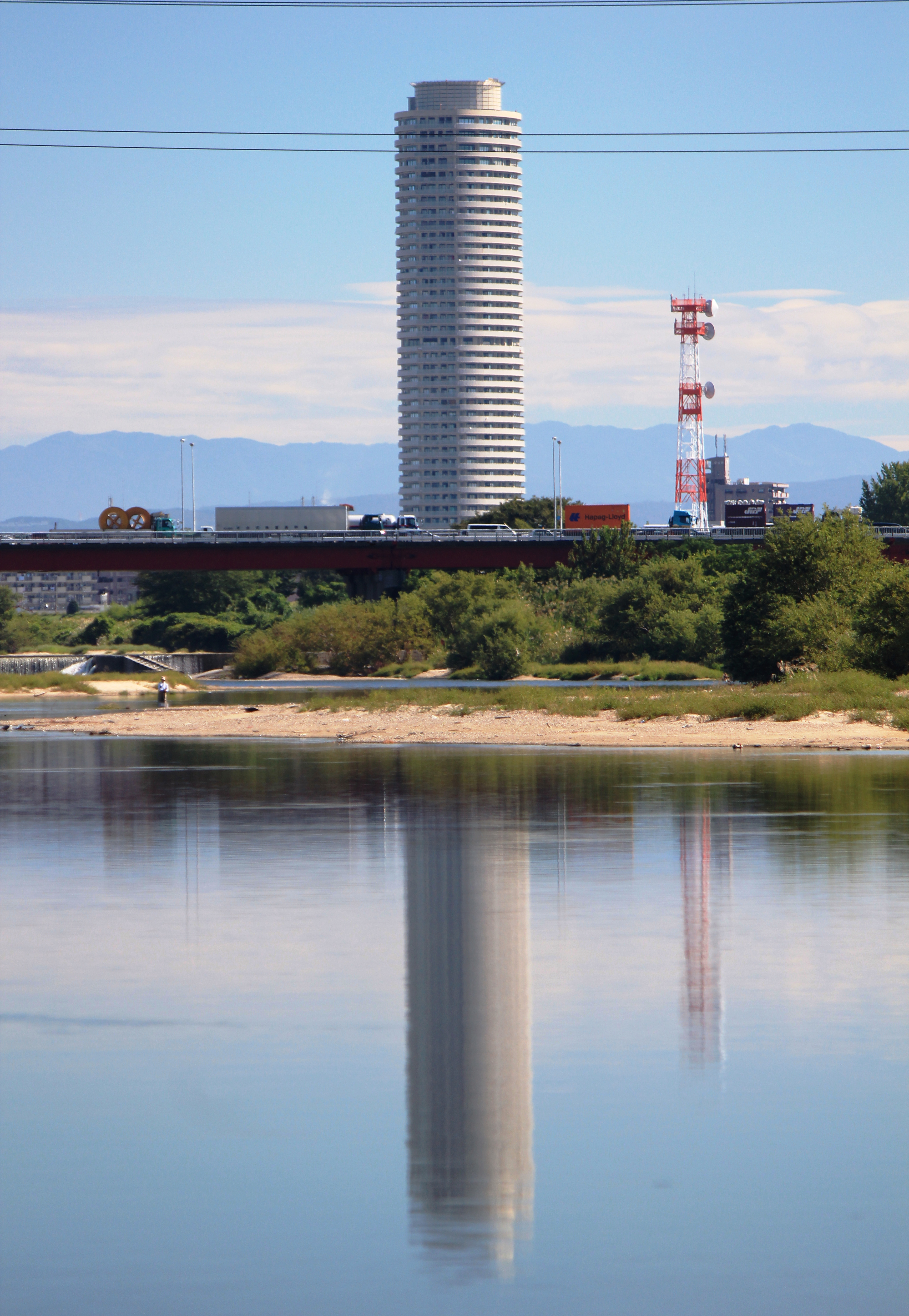 The Scene Johoku seen from the Shōnai River in Kita-ku, Nagoya City, Japan